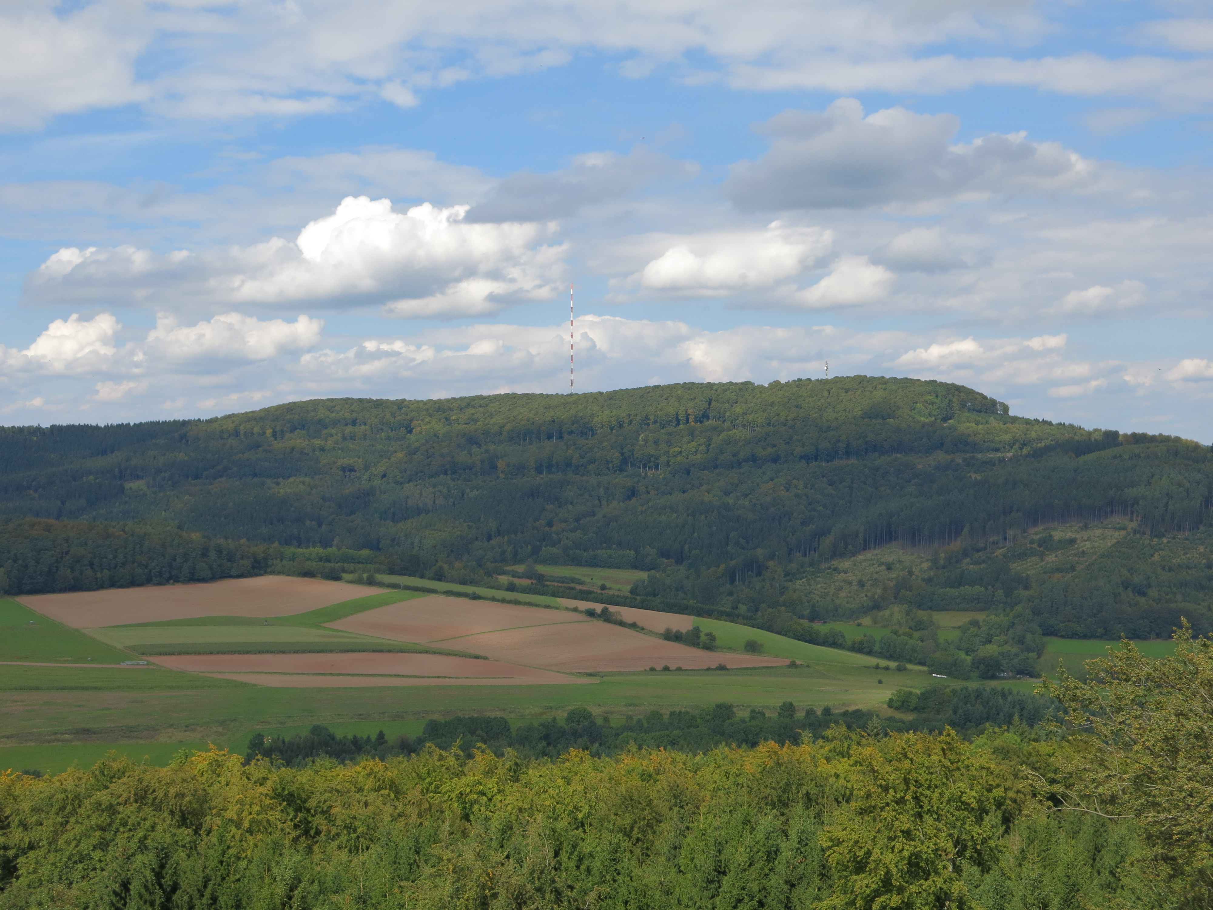 Rimberg, seen from south